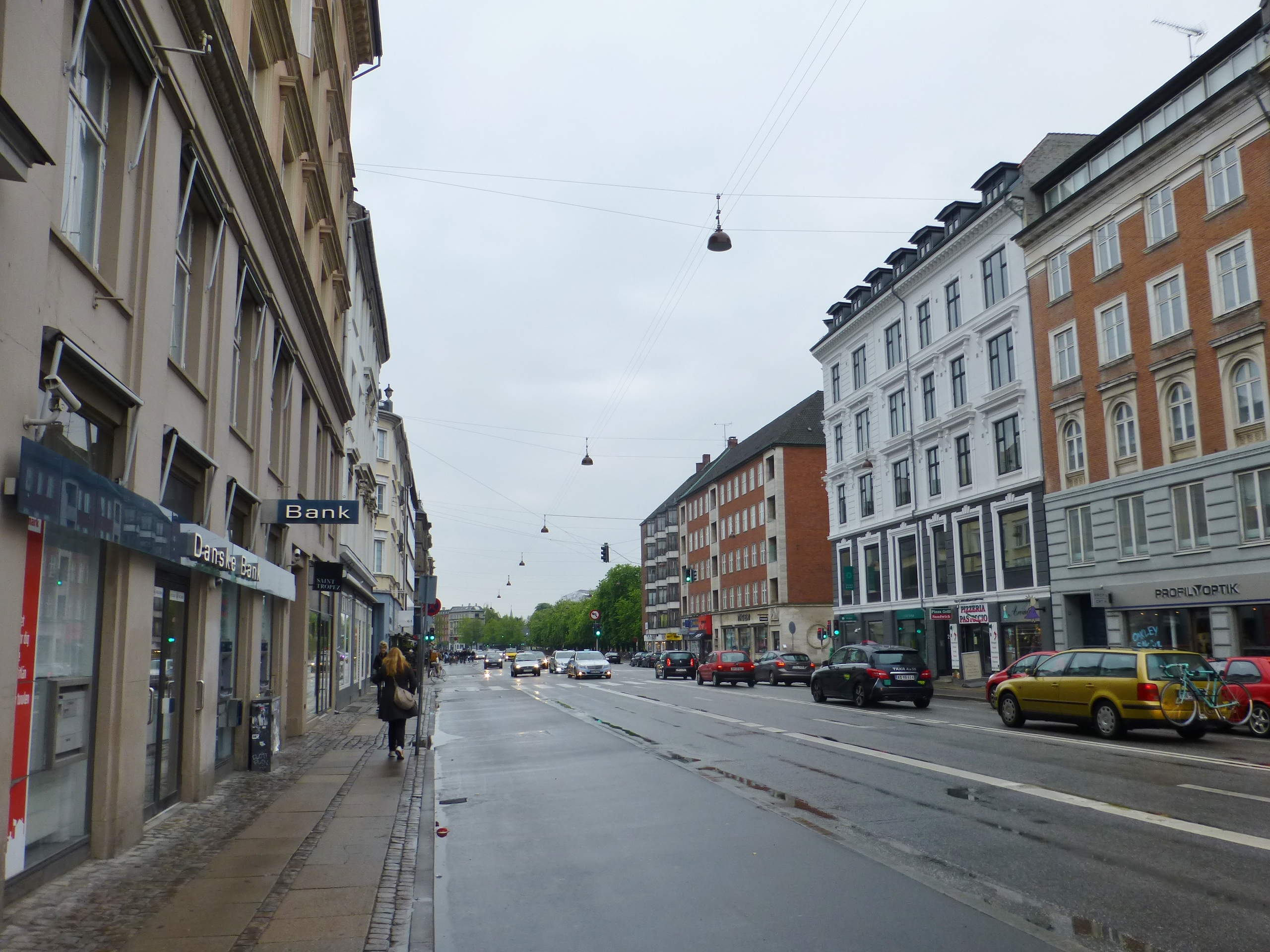 The street Østerbrogade at Trianglen in Østerbro in Copenhagen.